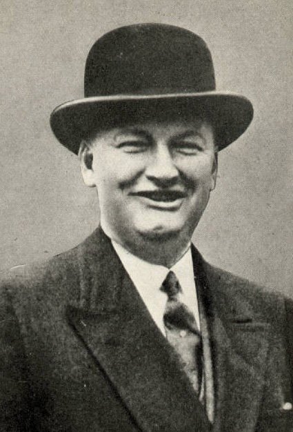 image of Tim Mara circa 1930